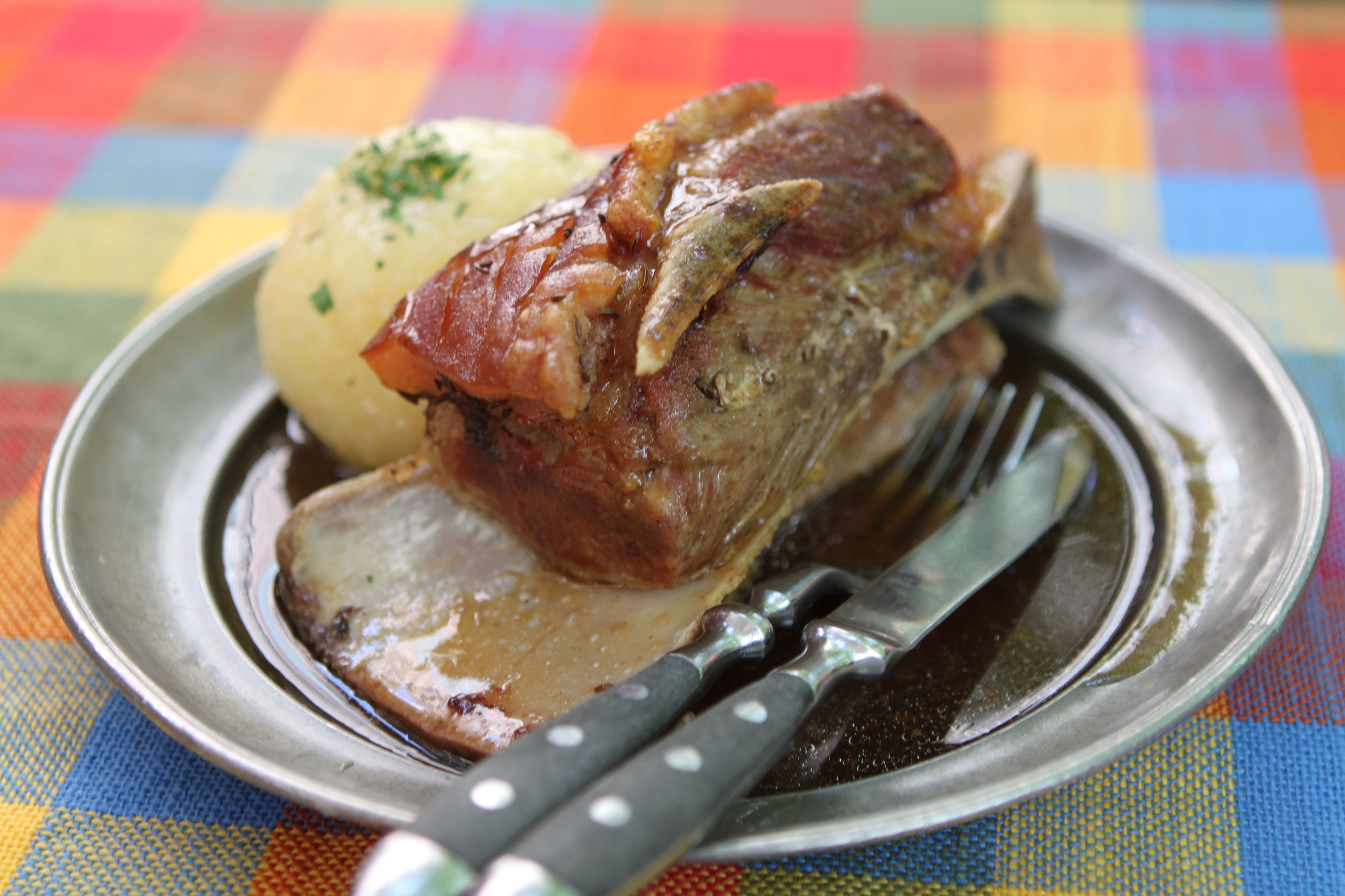 "Schäuferle", a Frankonian speciality